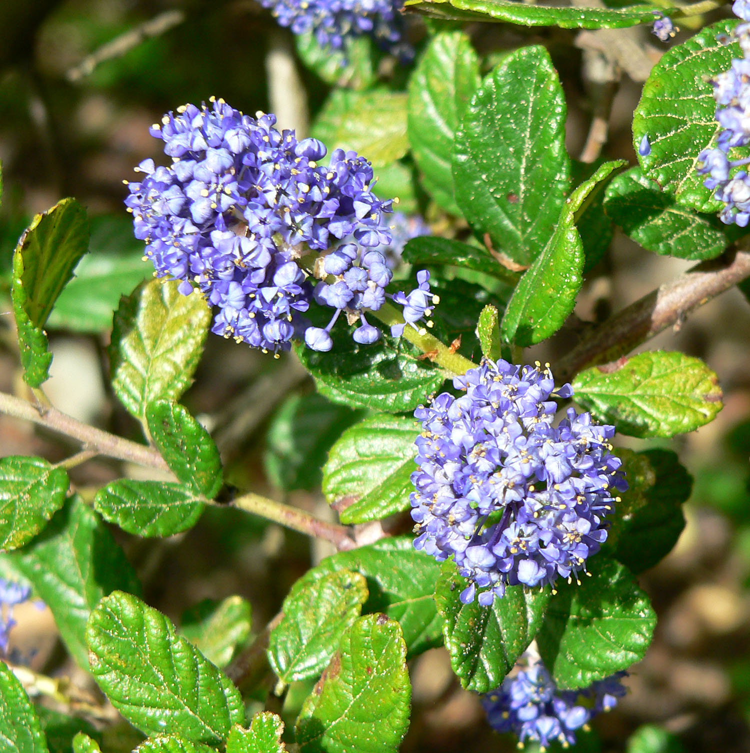 Photo of Ceanothus griseus var. griseus at the Regional Parks Botanic Garden, Berkeley, California